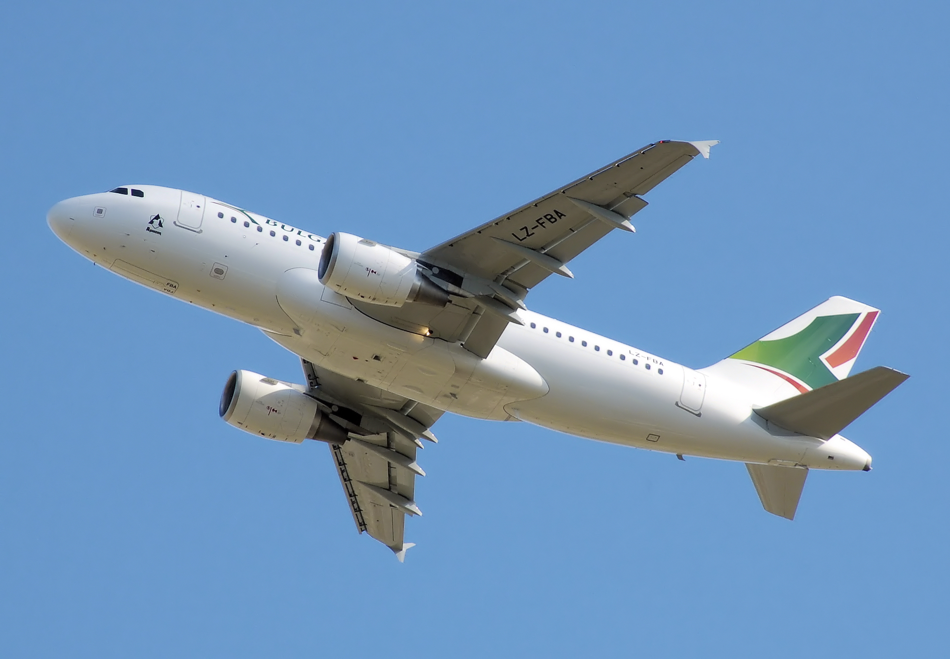 Bulgaria Air Airbus A319-100 (LZ-FBA) takes off from London Heathrow Airport, England.